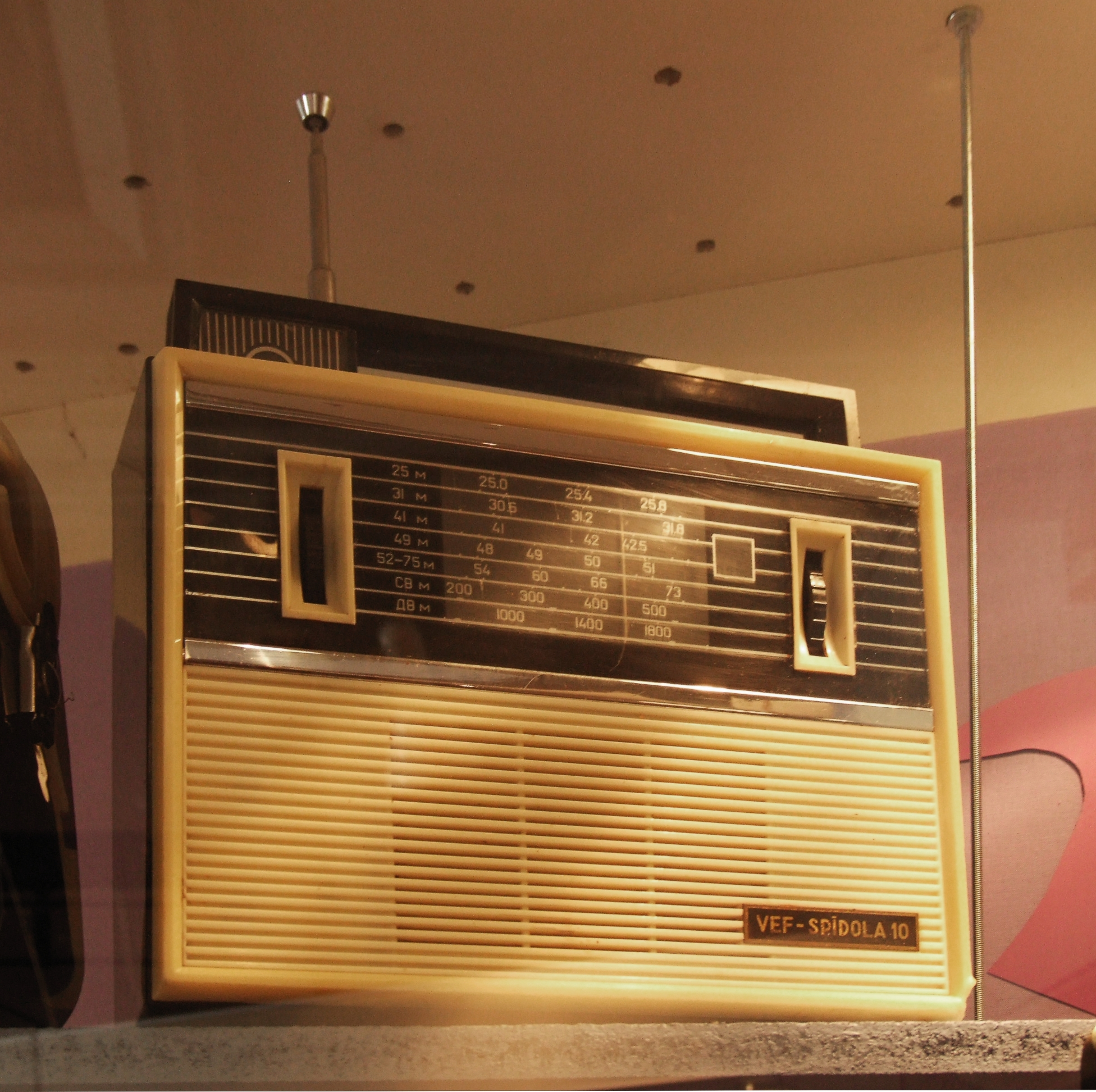 Soviet transistor radio VEF Spīdola-10 (ВЭФ Спидола-10) from 1963 year - Latvian Museum of National History, Riga